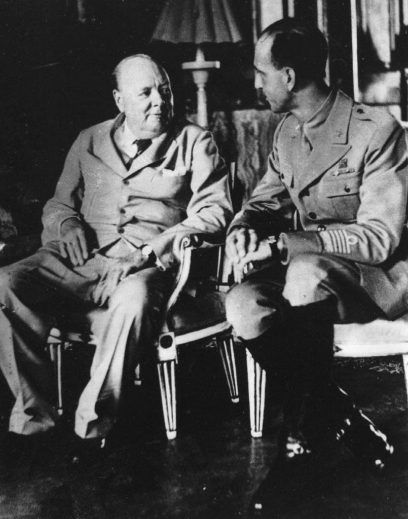 Churchill and and prince Umberto of Savoy in August 1944